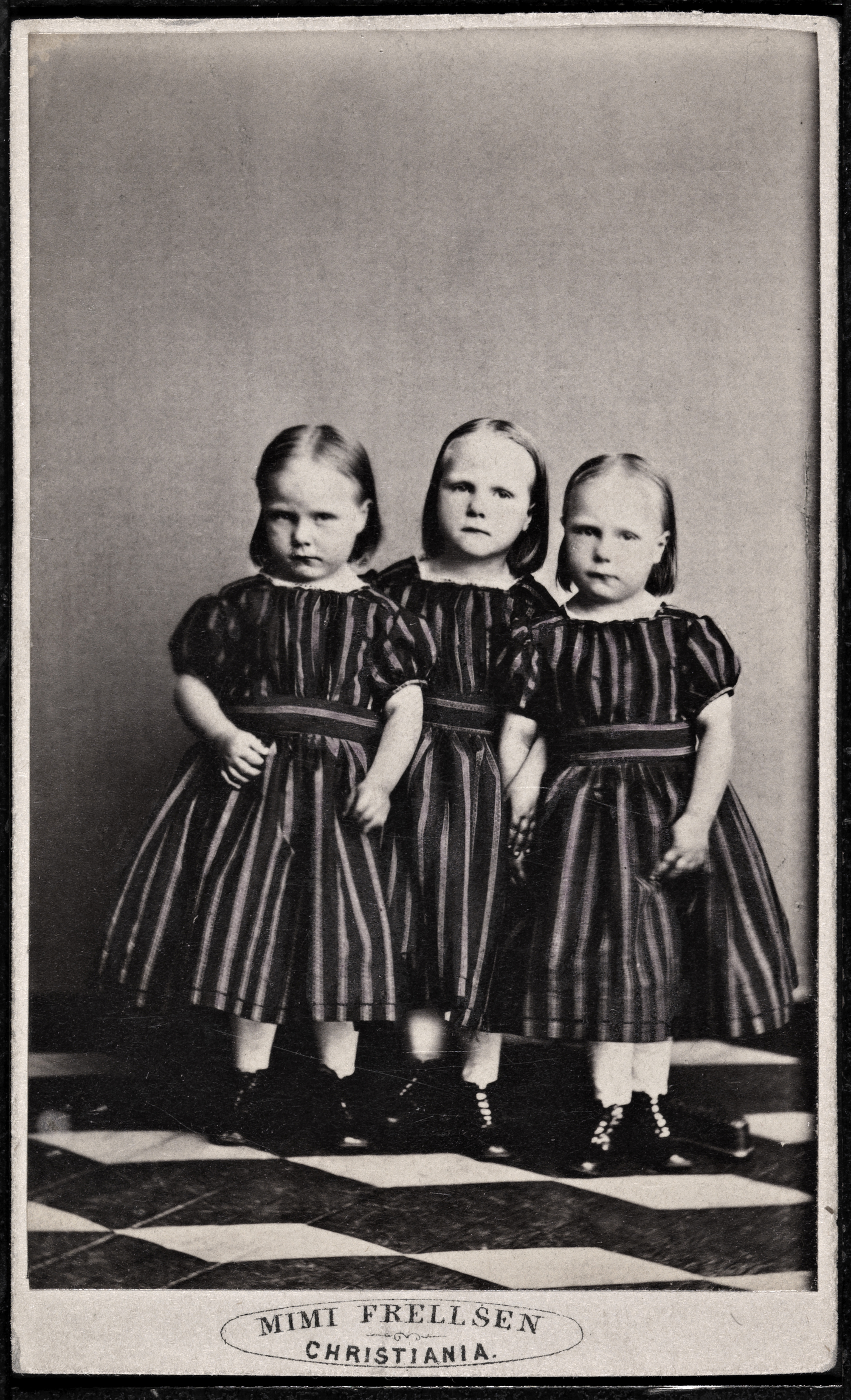 Beskrivelse / Description: Visittkort / Carte de visite. Dato / Date: ukjent / unknown Sted / Place: Oslo Fotograf / Photographer: Mimi Frellsen (Christiania) Digital kopi av original / Digital copy of original: s/h papirpositiv, albumin Eier / Owner Institution: Nasjonalbiblioteket / National Library of Norway Lenke / Link: Bildesignatur / Image Number: bldsa_FA1274